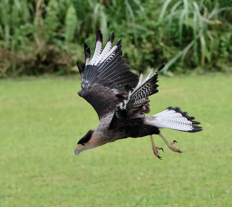 Sub-adult Southern Caracara (Caracara plancus)